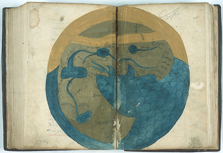 A map of the inhabited world, from cosmography ‘Ajā’ib al-makhlūqāt wa-gharā’ib al-mawjūdāt (Marvels of Things Created and Miraculous Aspects of Things Existing) by Zakariya al-Qazwīnī.